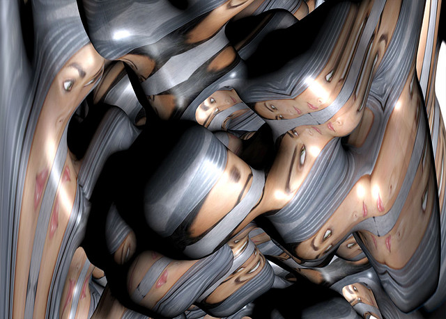 Illustration for Ted Chiang's "Alchemist's Gate"